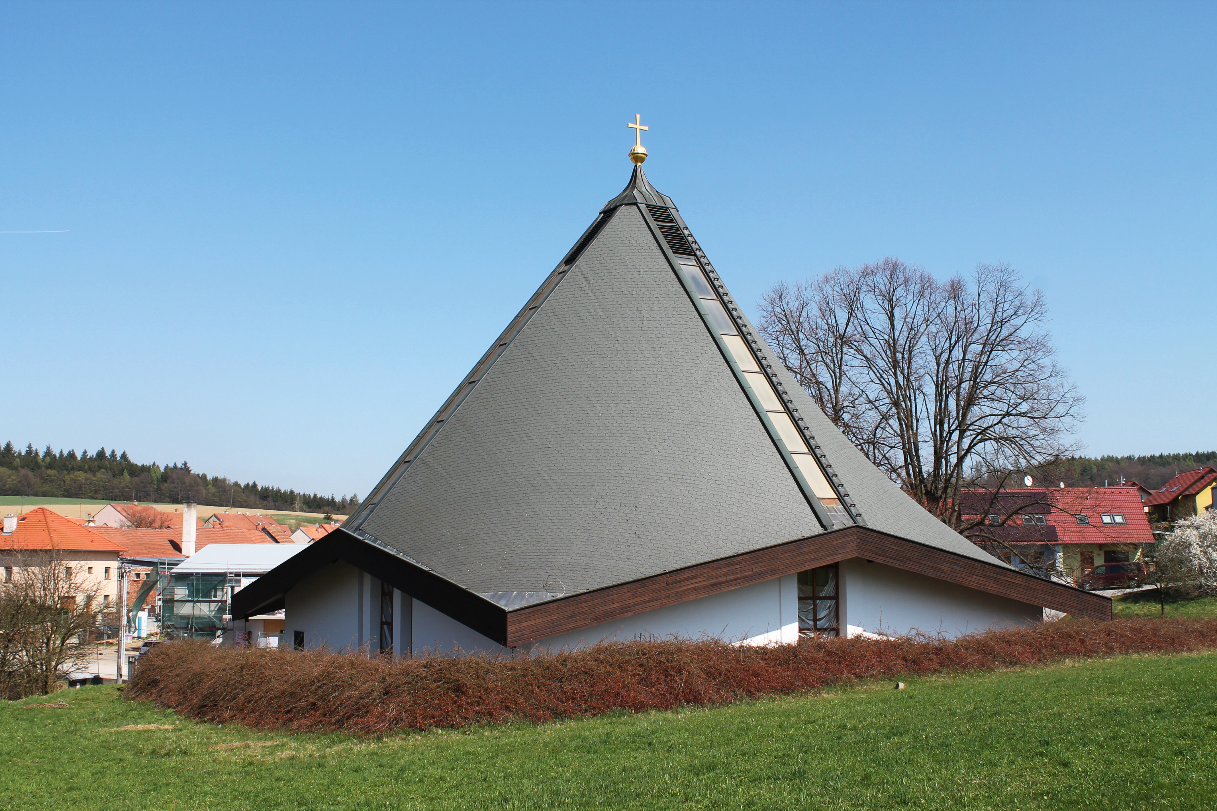 Church of Our Lady Mother of the Church, Proseč, Březina, Brno-Country District, Czech Republic